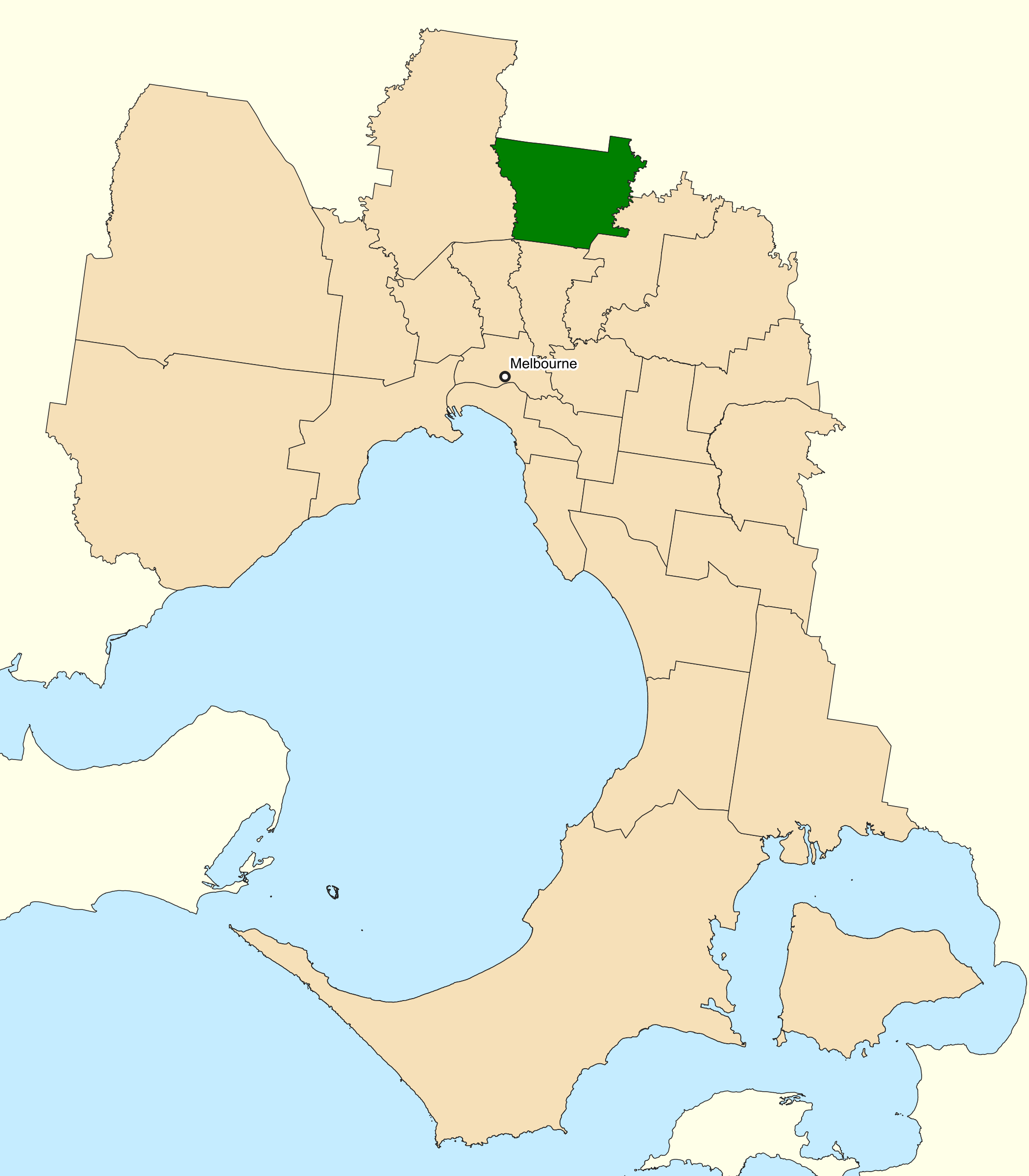 Location of the Australian federal electoral division of Scullin (dark green) in Greater Melbourne, Victoria as of the 2019 Australian federal election. Incorporates or developed using Administrative Boundaries ©PSMA Australia Limited licensed by the Commonwealth of Australia under Creative Commons Attribution 4.0 International licence (CC BY 4.0).